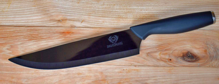 Dalstrong Infinity Blade - Ceramic Chef's Knife. Made of blackened zirconium oxide compressed and super heated.